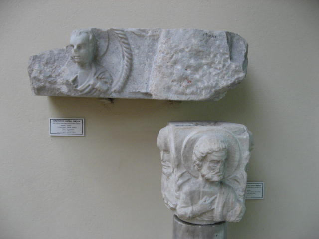 Column capital decorated with busts of apostles. Marble, Pammakaristos Church excavations. Early 14th century. Inv. 71.147 T